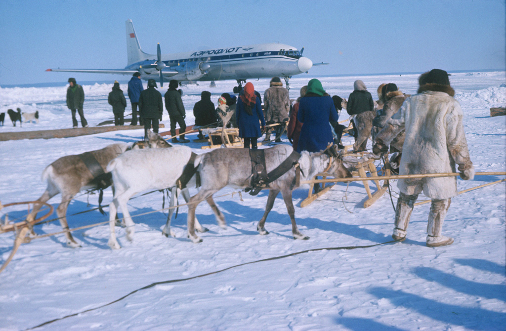 “Aircraft delivered cargo for reindeer herders”. Aircraft delivered cargo for reindeer herders.